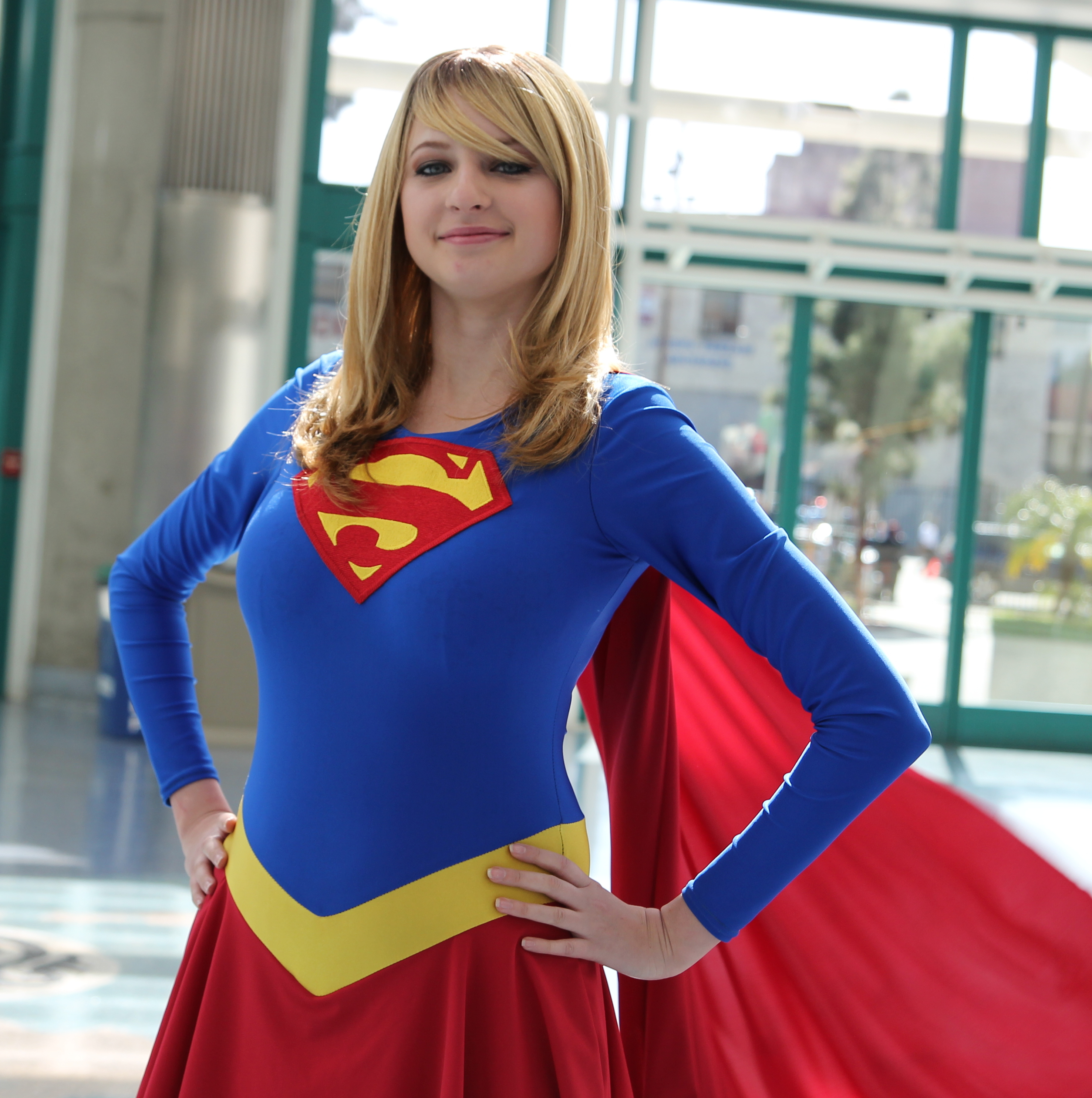 Wondercon 2016 - Supergirl Cosplay (2) Cosplay at WonderCon 2016.